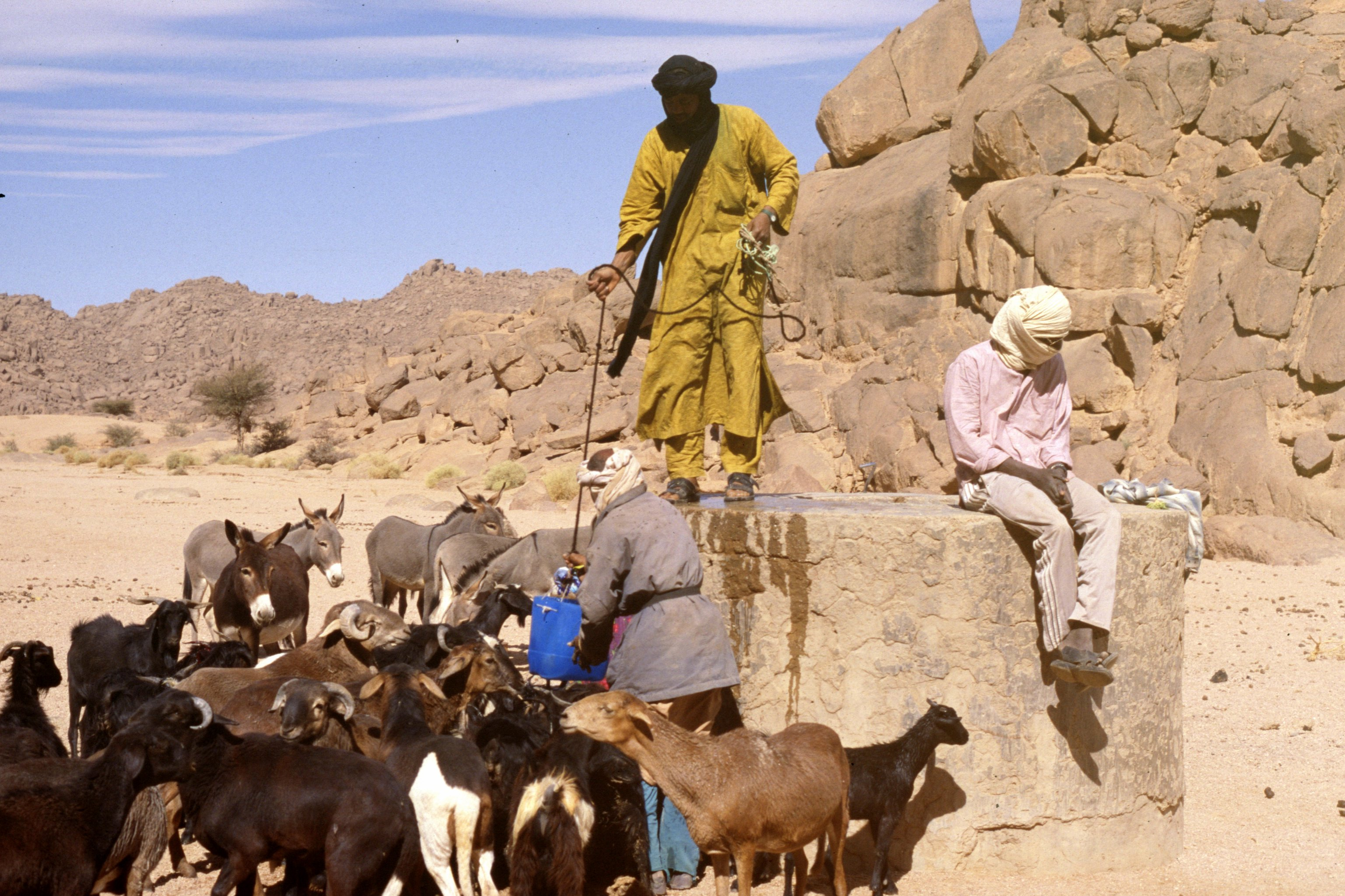 Tuareg in the Algerian Sahara.